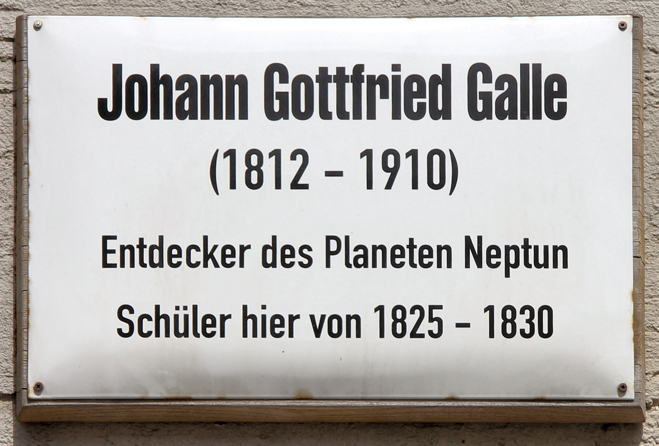 Memorial plaque, Johann Gottfried Galle, Kirchplatz, Lutherstadt Wittenberg, Germany